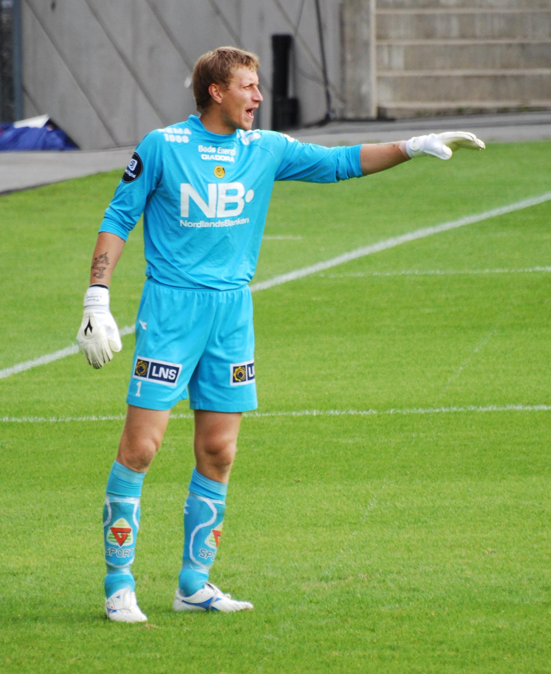 The Estonian goalkeeper Pavel Londak, playing for the Norwegian club Bodø/Glimt. Here in a match against Rosenborg BK, 15.08.2009